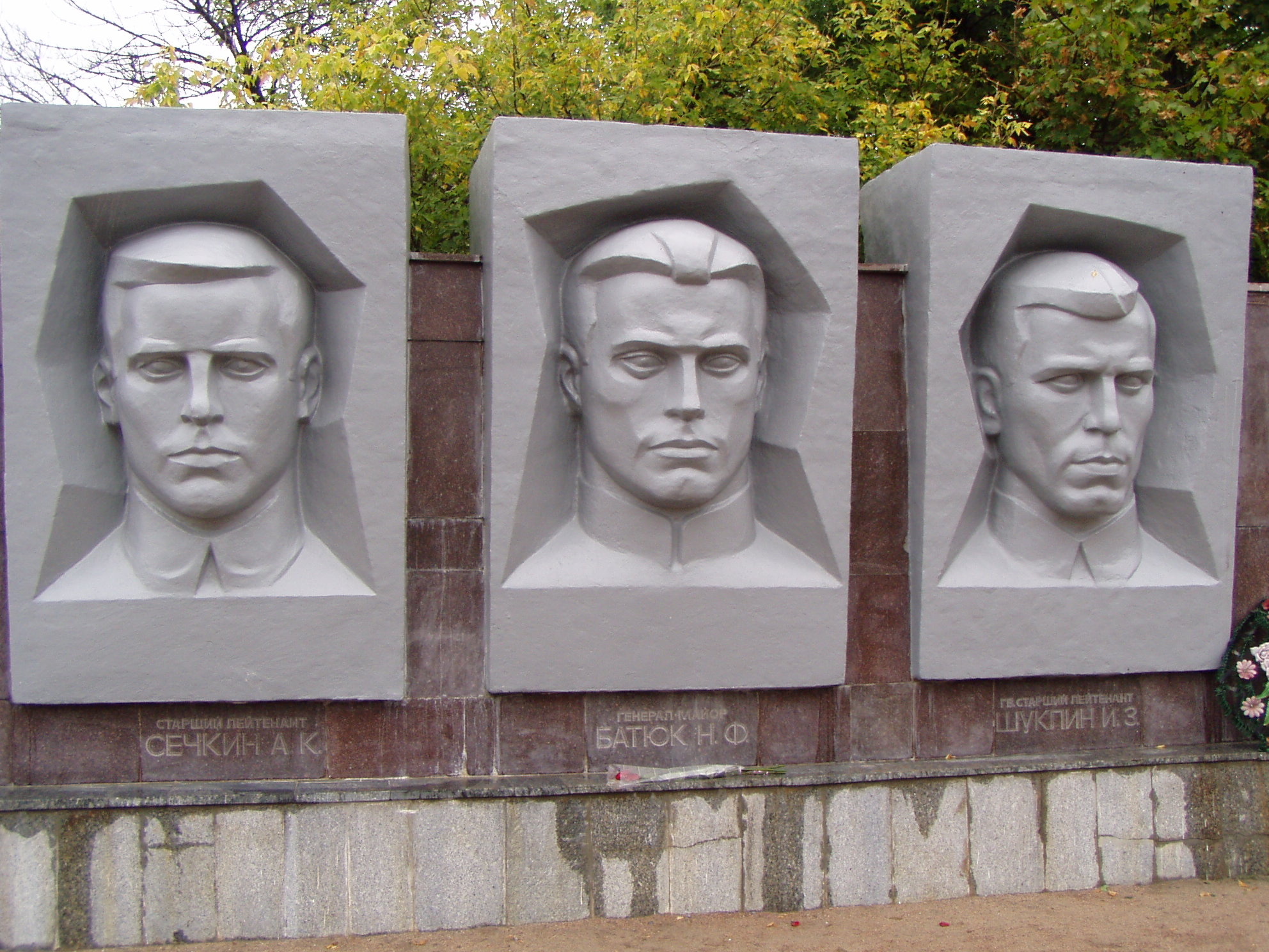 Monument for Liberation of the Ukraine in 1943 in Svyatorgorsk (Oblast Donetsk)